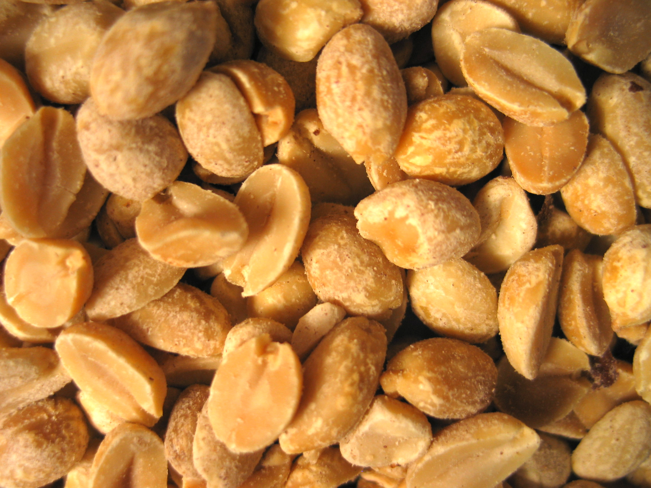 Roasted Peanuts author: Flyingdream